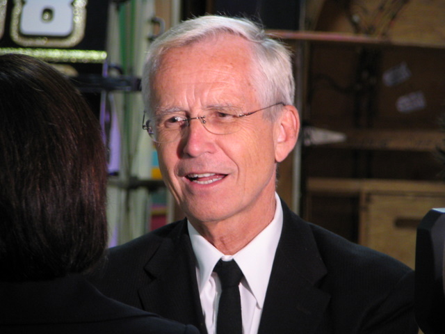 Photo of then-producer of The Price is Right Roger Dobkowitz taken prior to the filming of Bob Barker's 50 Years in Television special.